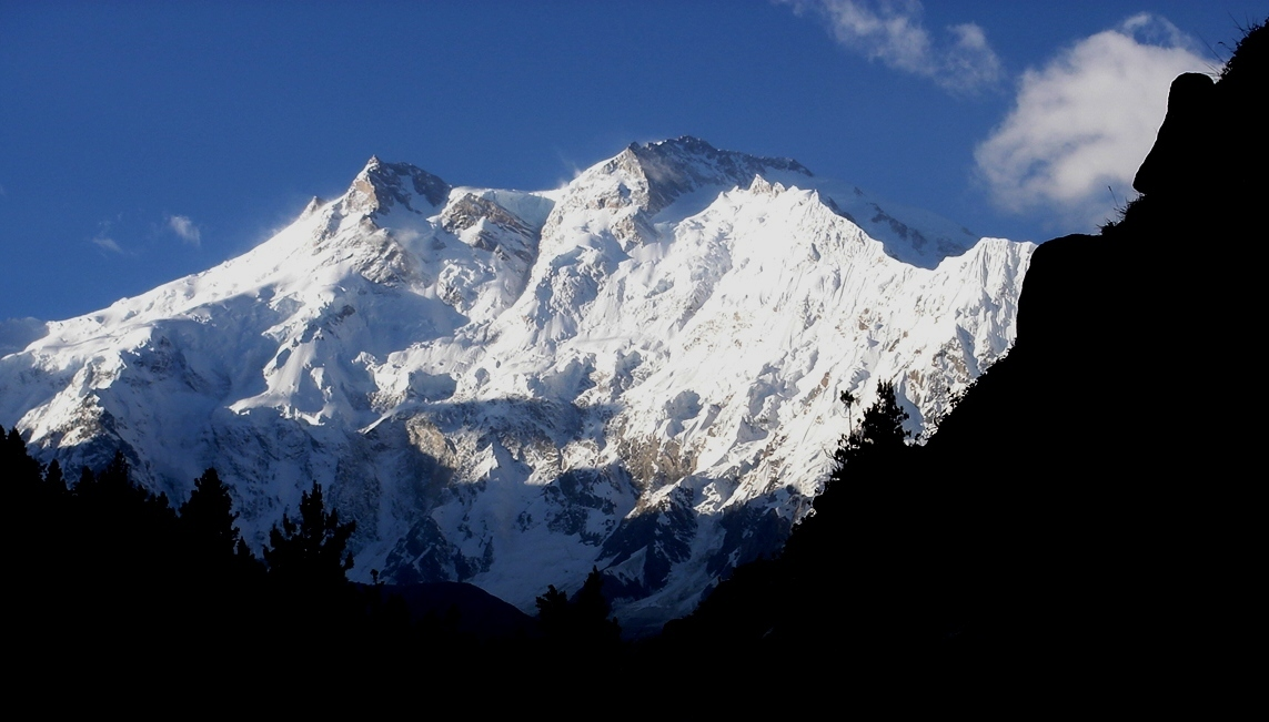 Nanga Parbat's Raikhot Face viewed from south of Fairy Meadows.